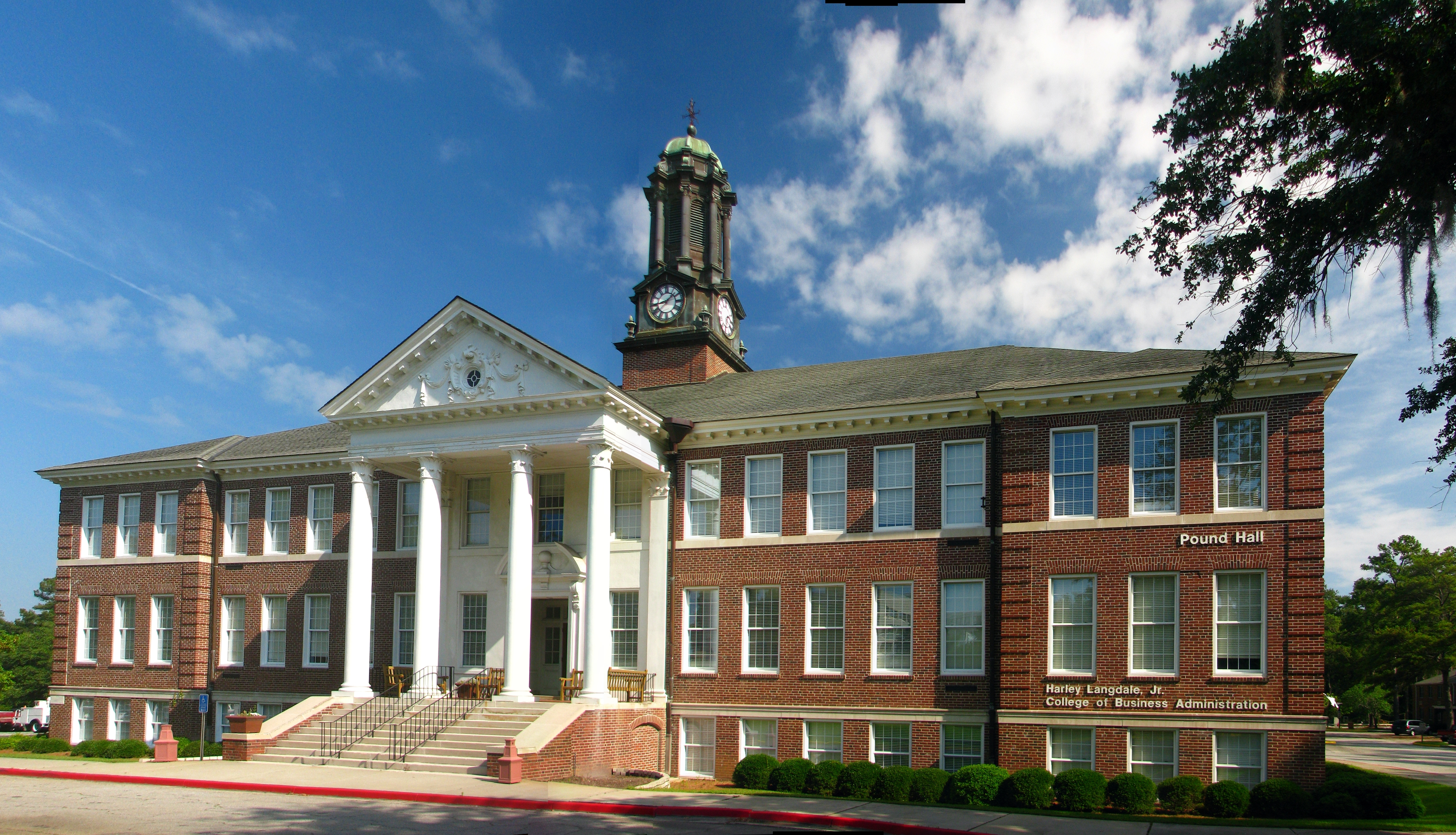 Pound Hall at the North Campus of Valdosta State Universoty